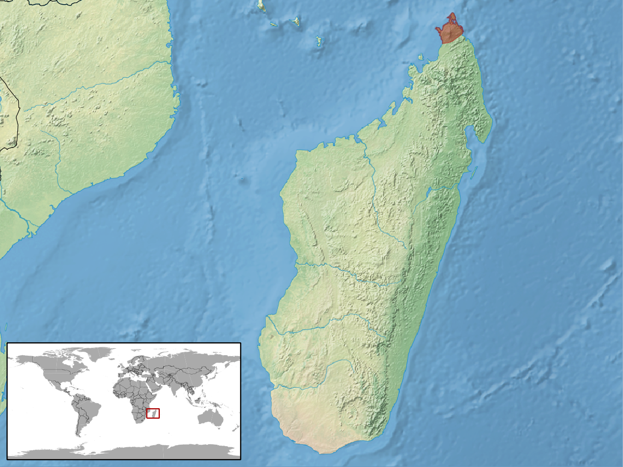 geographic distribution of Trachylepis tavaratra